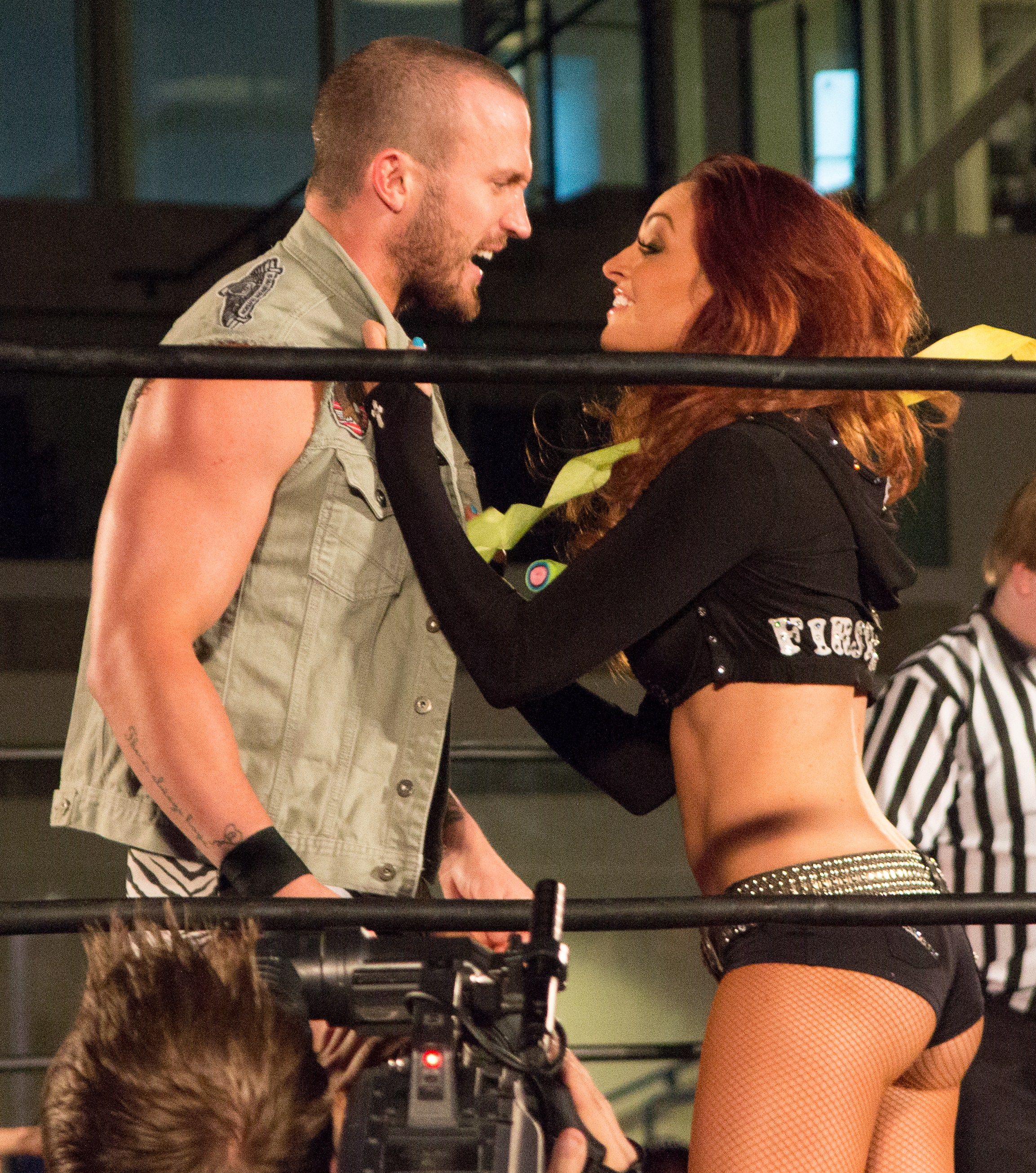 Mike Bennett (left) and Maria Kanellis making their ring entrance at Ring of Honor's All Star Extravaganza in Toronto, ON